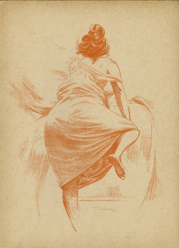 From "Autour d'Elles" by Henri Boutet, a collection of sketches celebrating women going about their daily activities